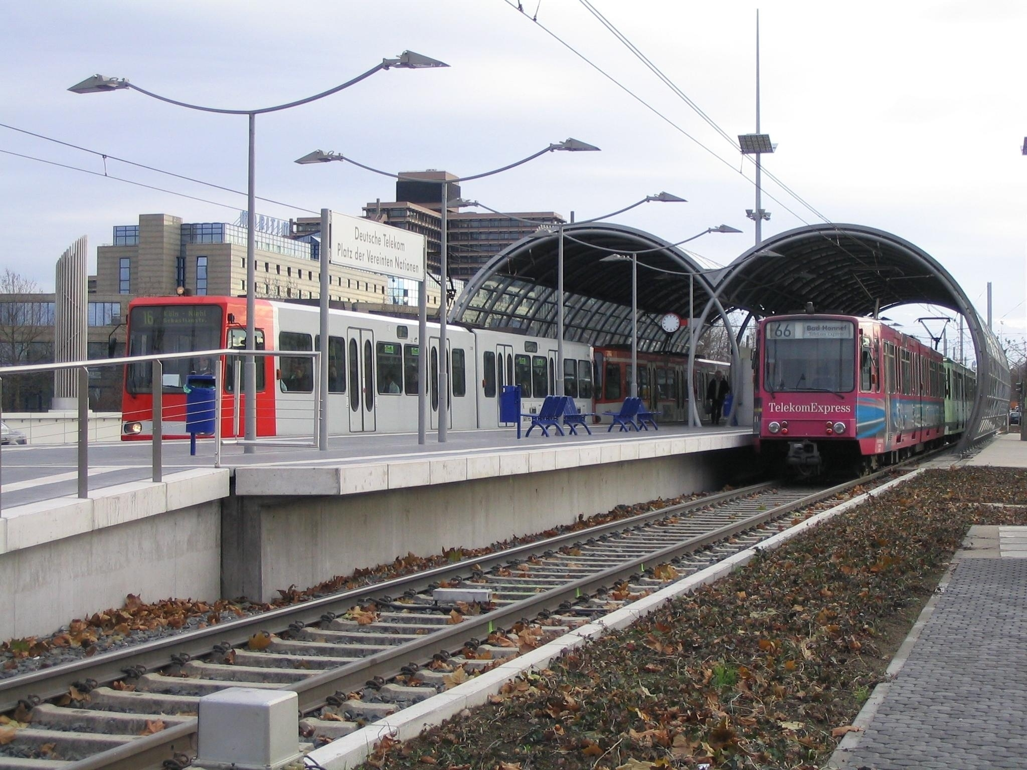 Former Square of the United Nations in Bonn, view on the city railway road Deutsche Telekom/Platz der Vereinten Nationen (now Deutsche Telekom/Olof-Palme-Allee). To the left there's a B-waggon of the Cologne transport services (german Köner Verkehrsbetriebe) and to the right a B-waggon of the SWB Bus and Bahn. The picture has been worked on the computer a little bit.